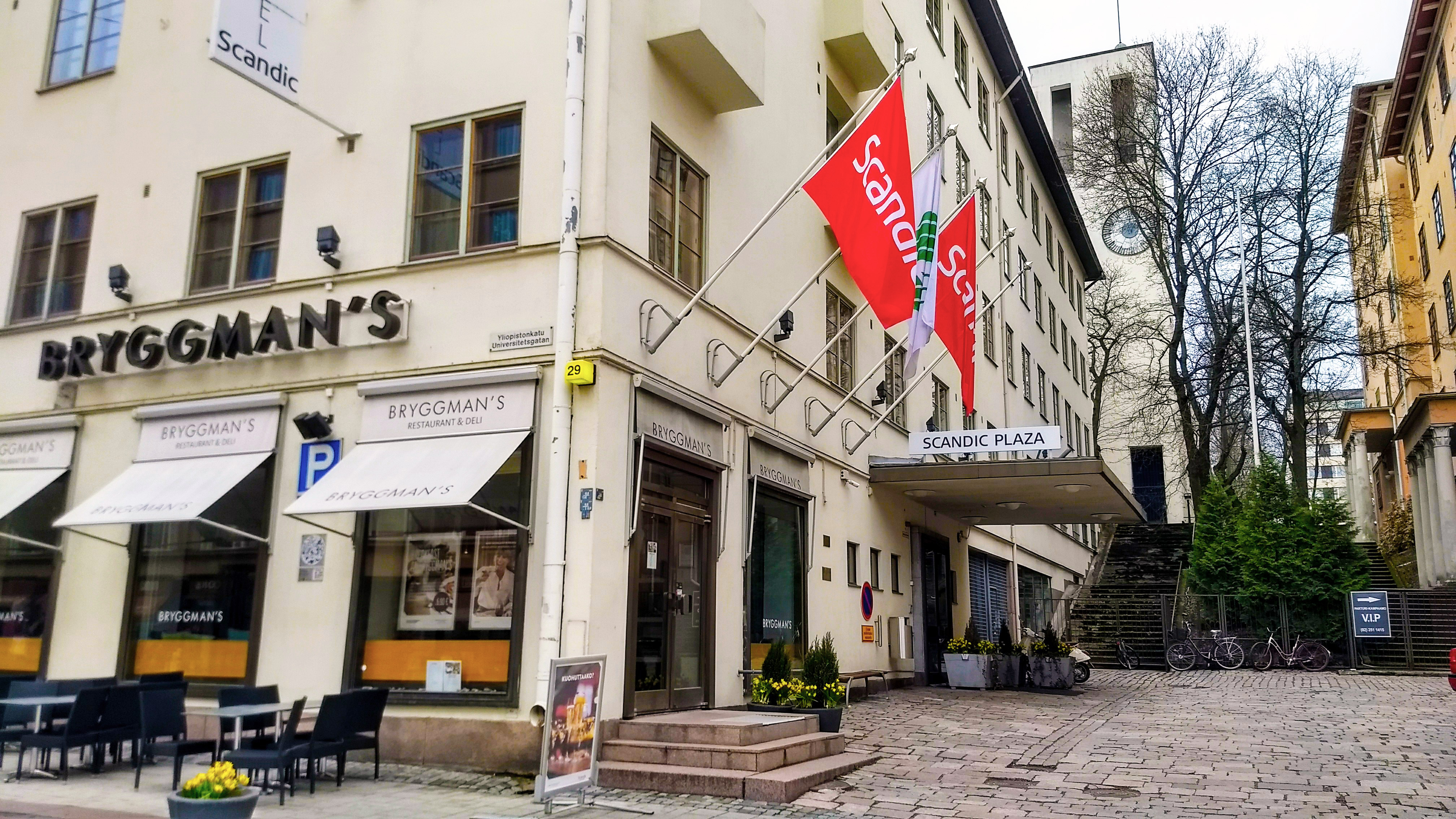 Hospits Betel, nowadays known as Scandic Plaza, in Turku.